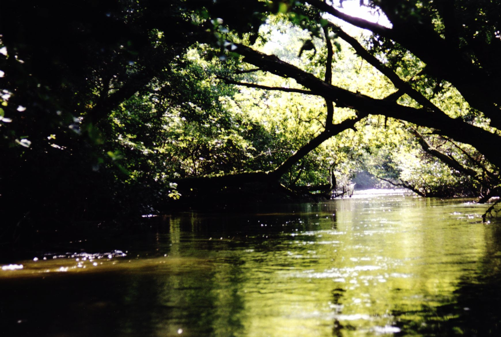 On the stream under the foliage